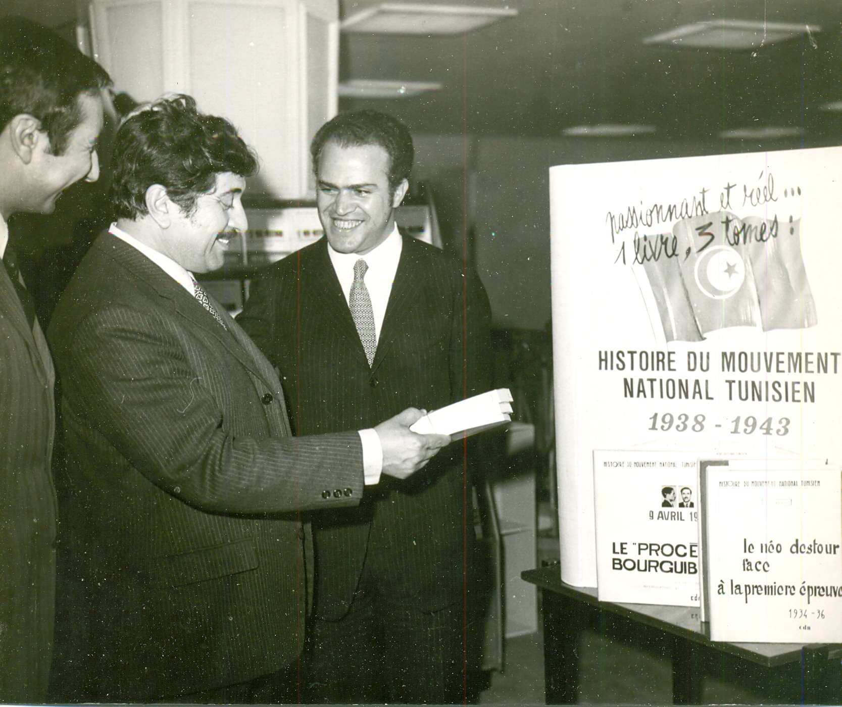 Tunisian Ministers Azzouz Rebai (1913-1993) and Mohamed Sayah (1933- )